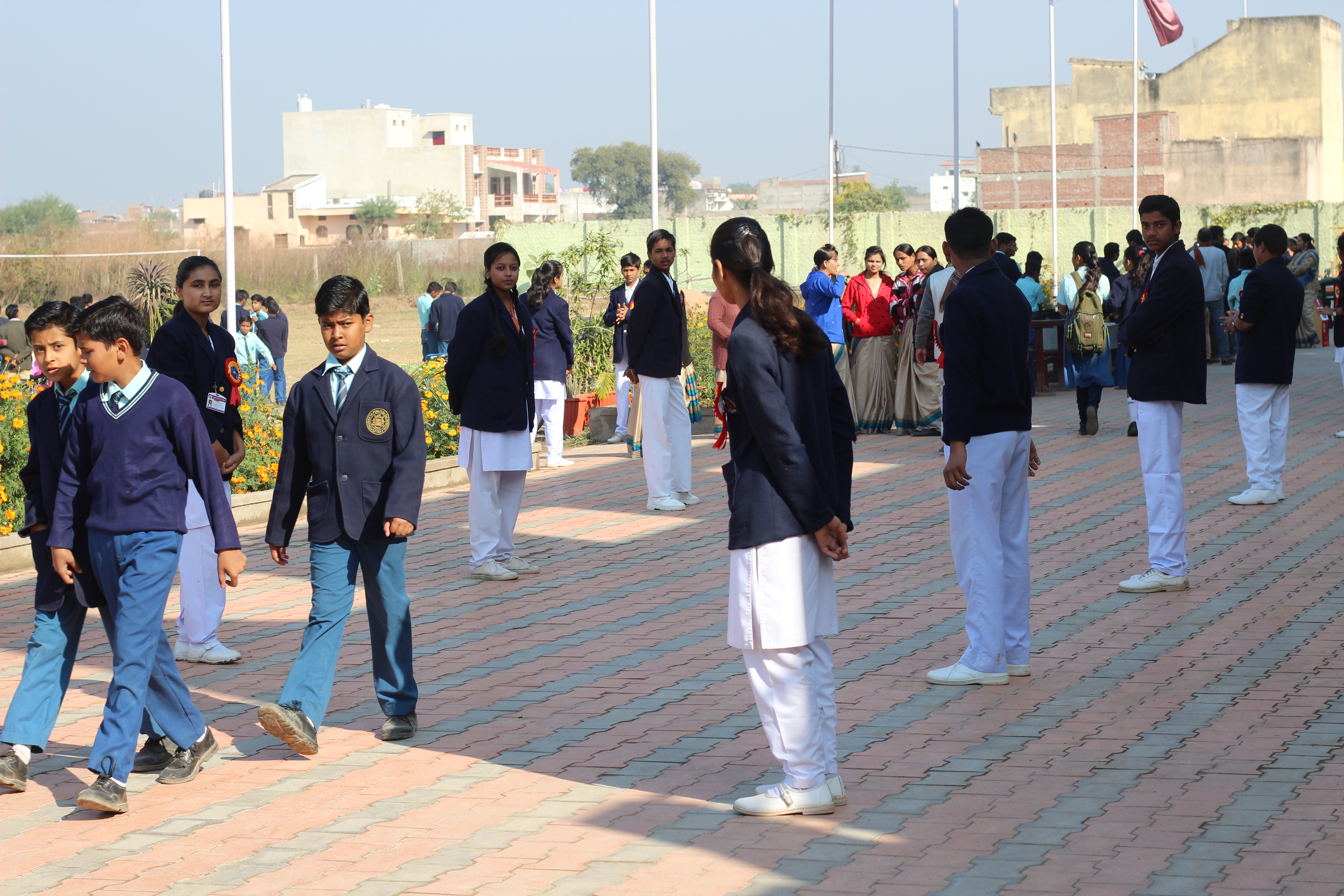 Science Exhibition at School